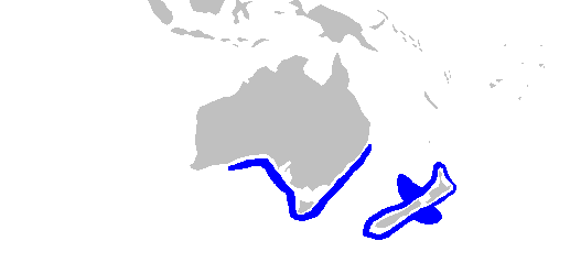 Distribution map for Oxynotus bruniensis